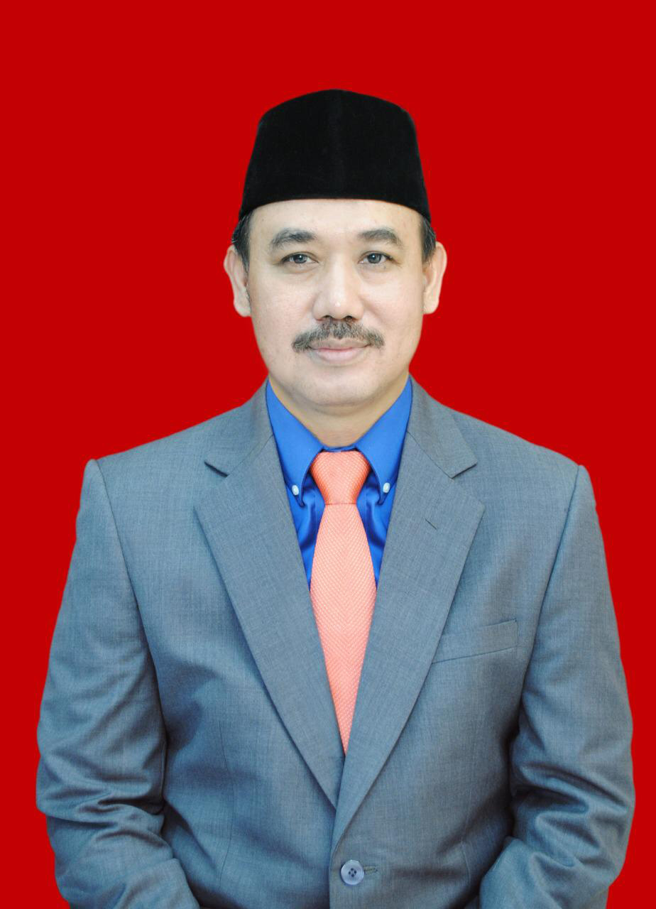 Ketua MUI (Majelis Ulama Indonesia) Bidang Pemberdayaan Ekonomi Umat